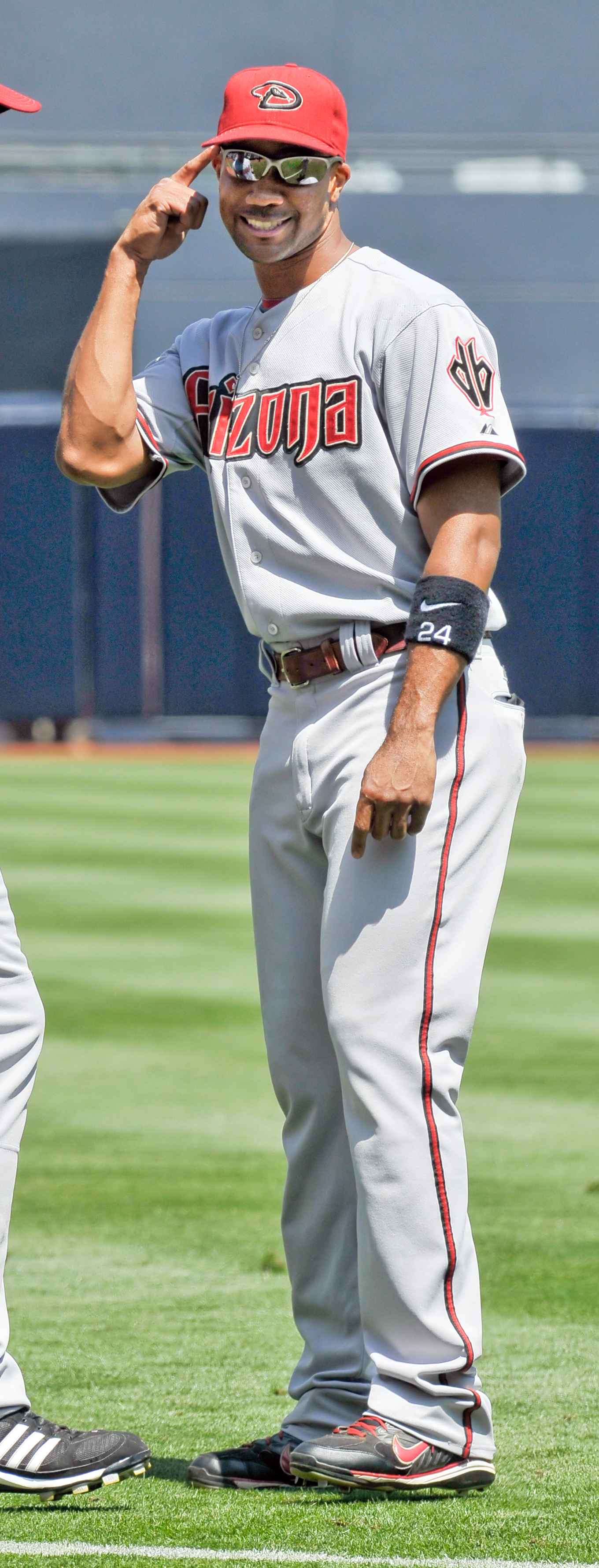 Chris Young